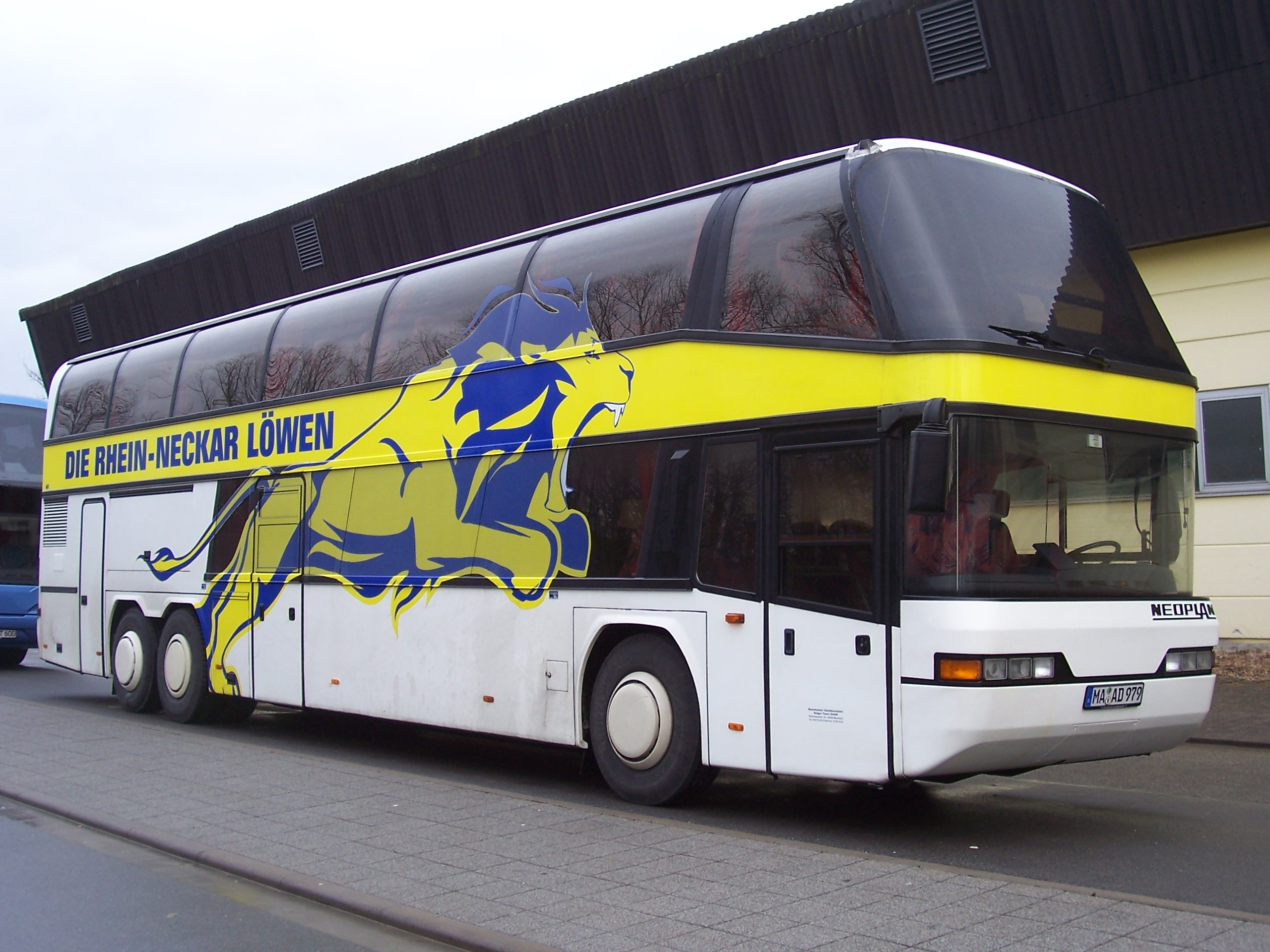 A Neoplan Skyliner double-decker bus in Viernheim, Germany My own photo